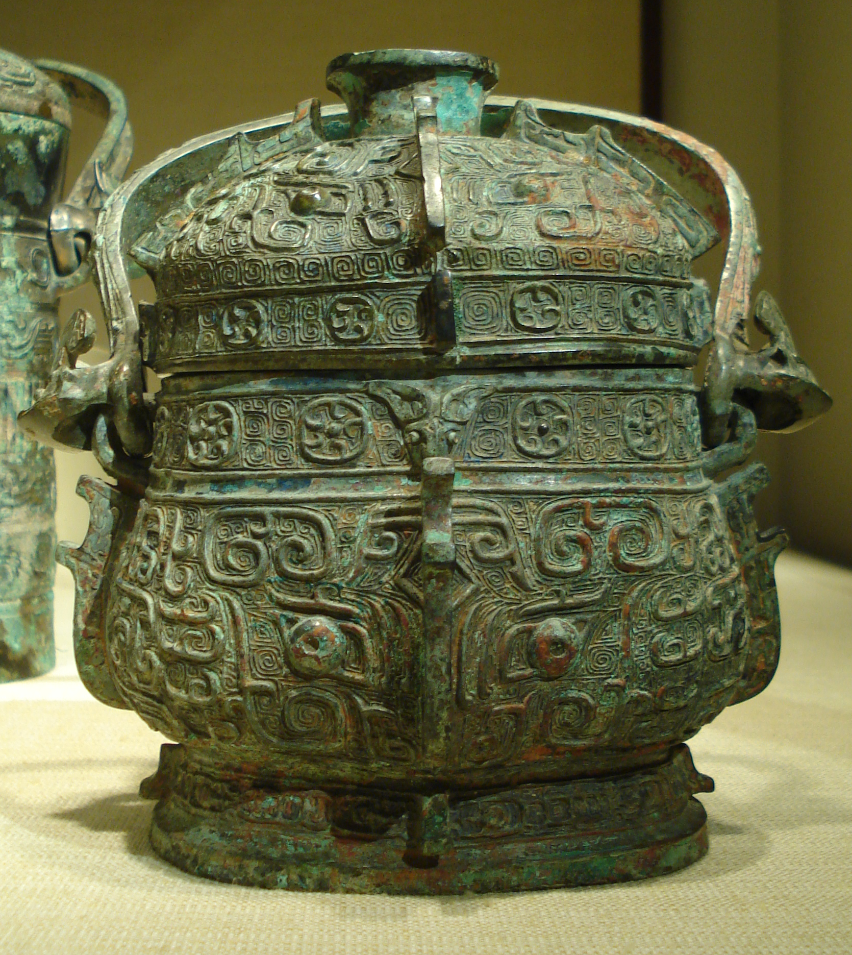 Ritual wine container and cover, or you. Bronze. Western Zhou dynasty, c. 10th-9th century BC.